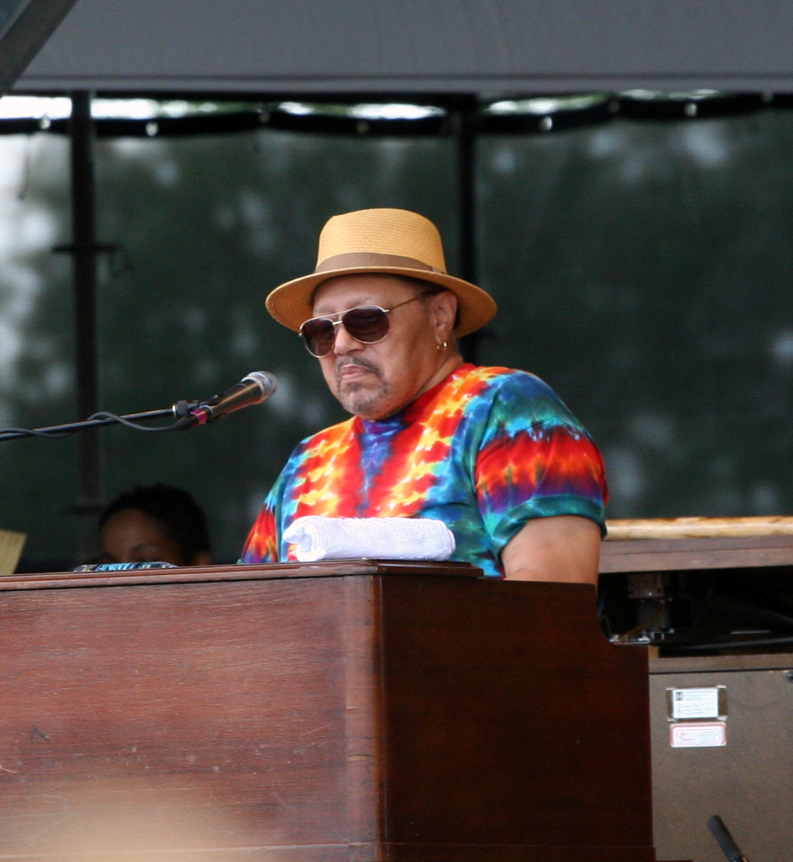 Art Neville performing with The Funky Meters at the New Orleans Jazz & Heritage Festival, Gentilly Stage, on Sunday, May 6, 2012.